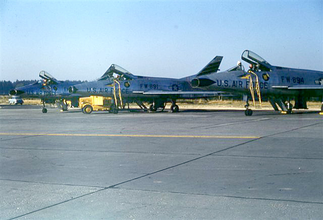 North American F-100C Super Sabres of the 461st Tactical Fighter Squadron sitting on the flightline at Hahn Air Base, Rhineland-Palatinate, Germany, in the 1950s.